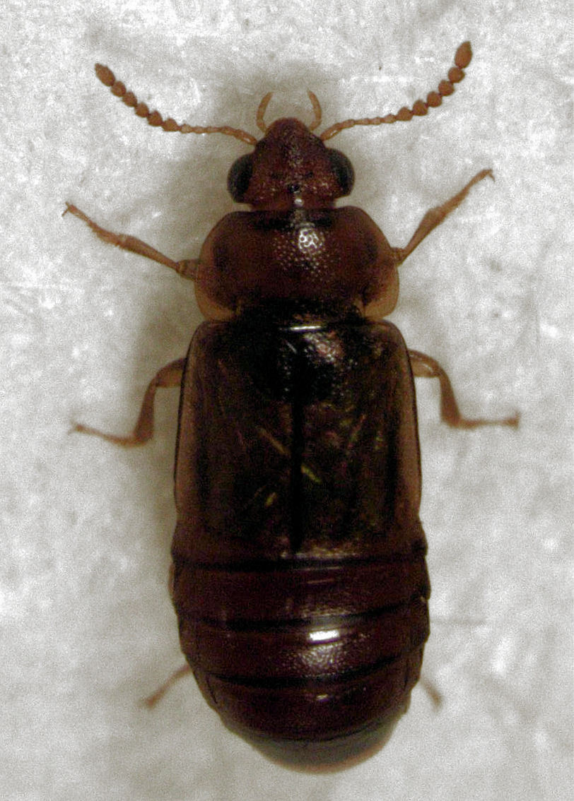 Austrolophrum cribriceps (adult)